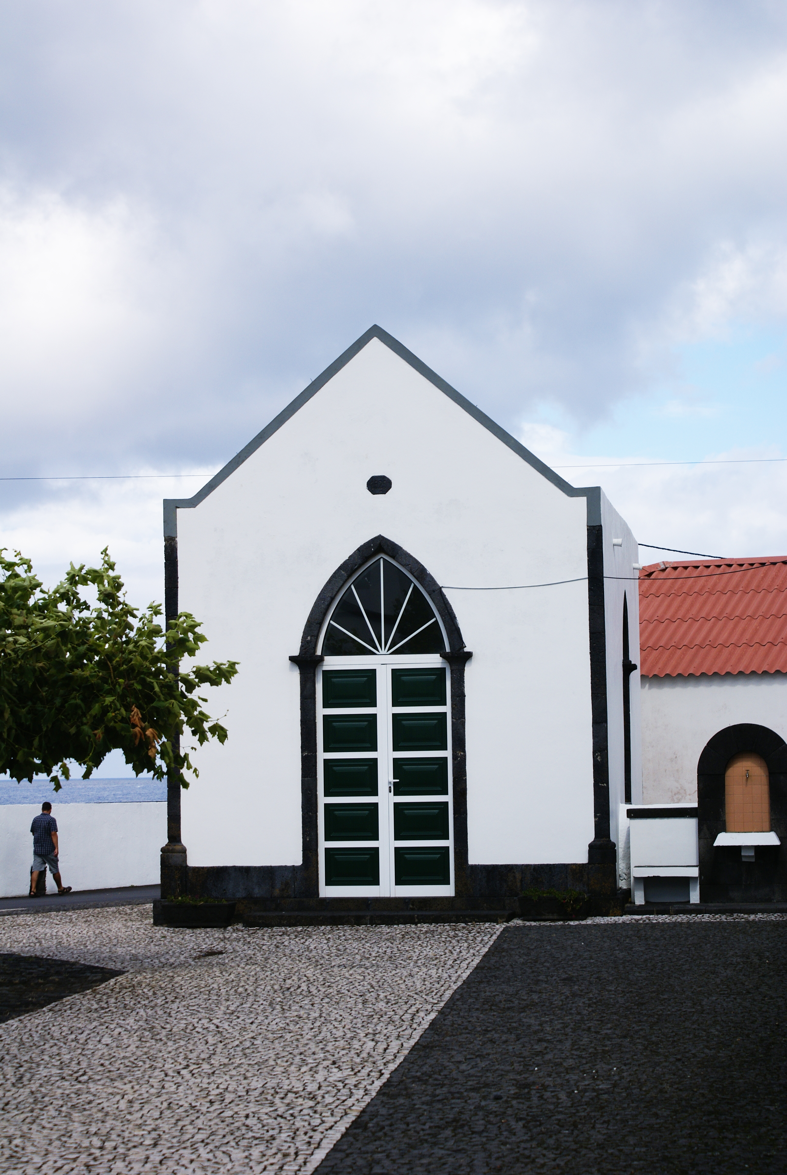 Império do Espírito Santo de Santo Amaro, concelho de São Roque do Pico, ilha do Pico, Açores